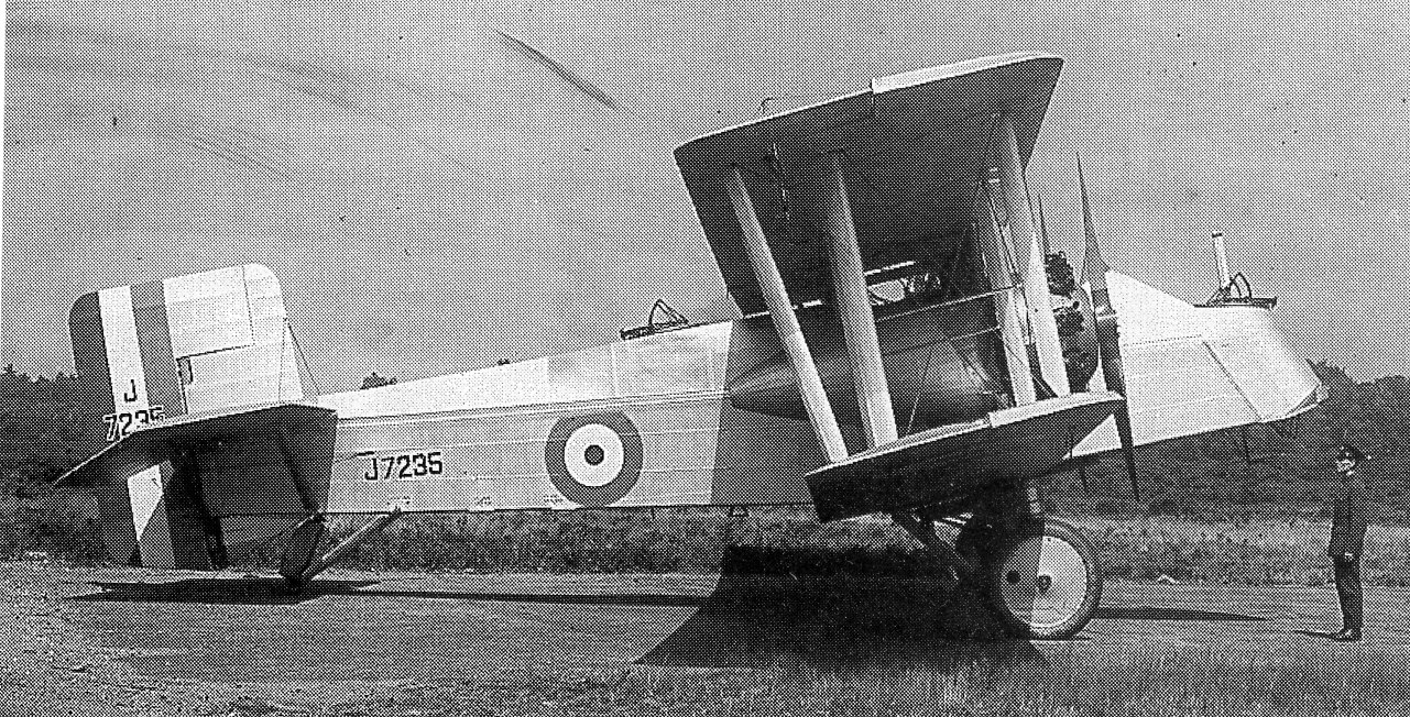 The third Boulton Paul Bugle, J7235, mid 1924. Bristol Jupiter IV engines.